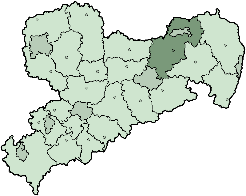 Map of the state Saxony in Germany before 2008, district Kamenz highlighted.